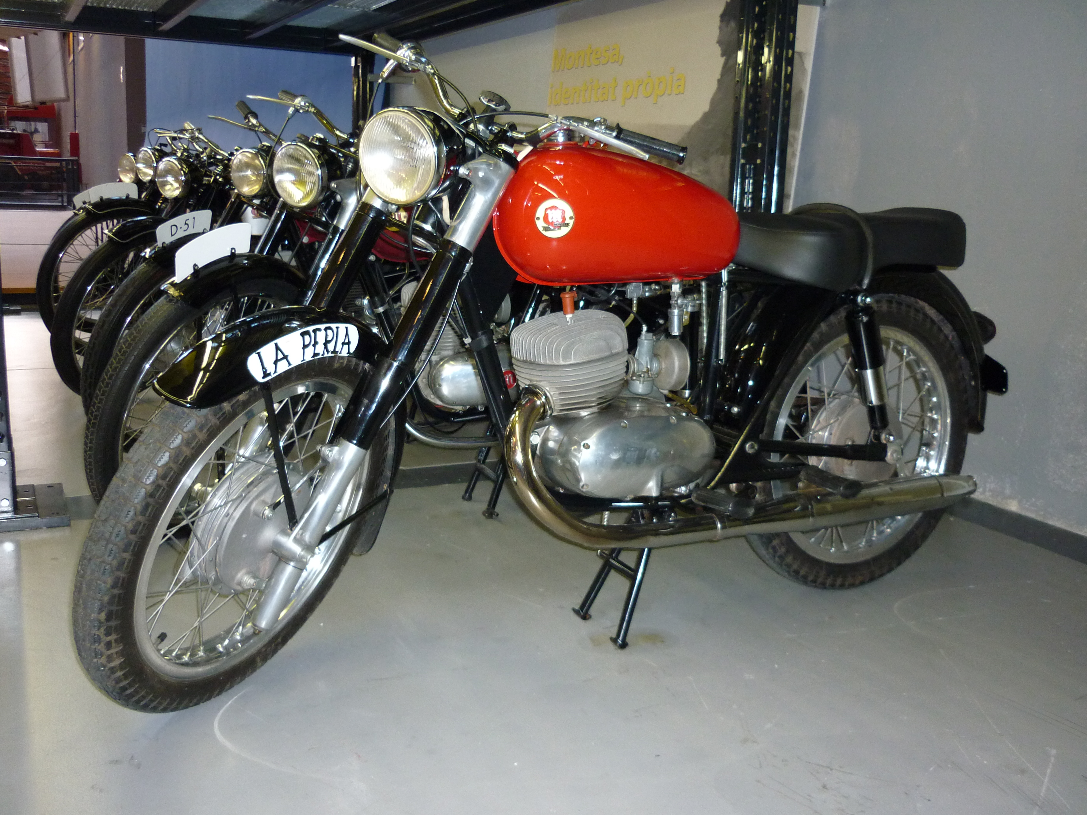 Montesa Impala 175cc "La Perla", one of the 3 participants in the "Operació Impala" that travelled 20.000 km across Africa in 1962